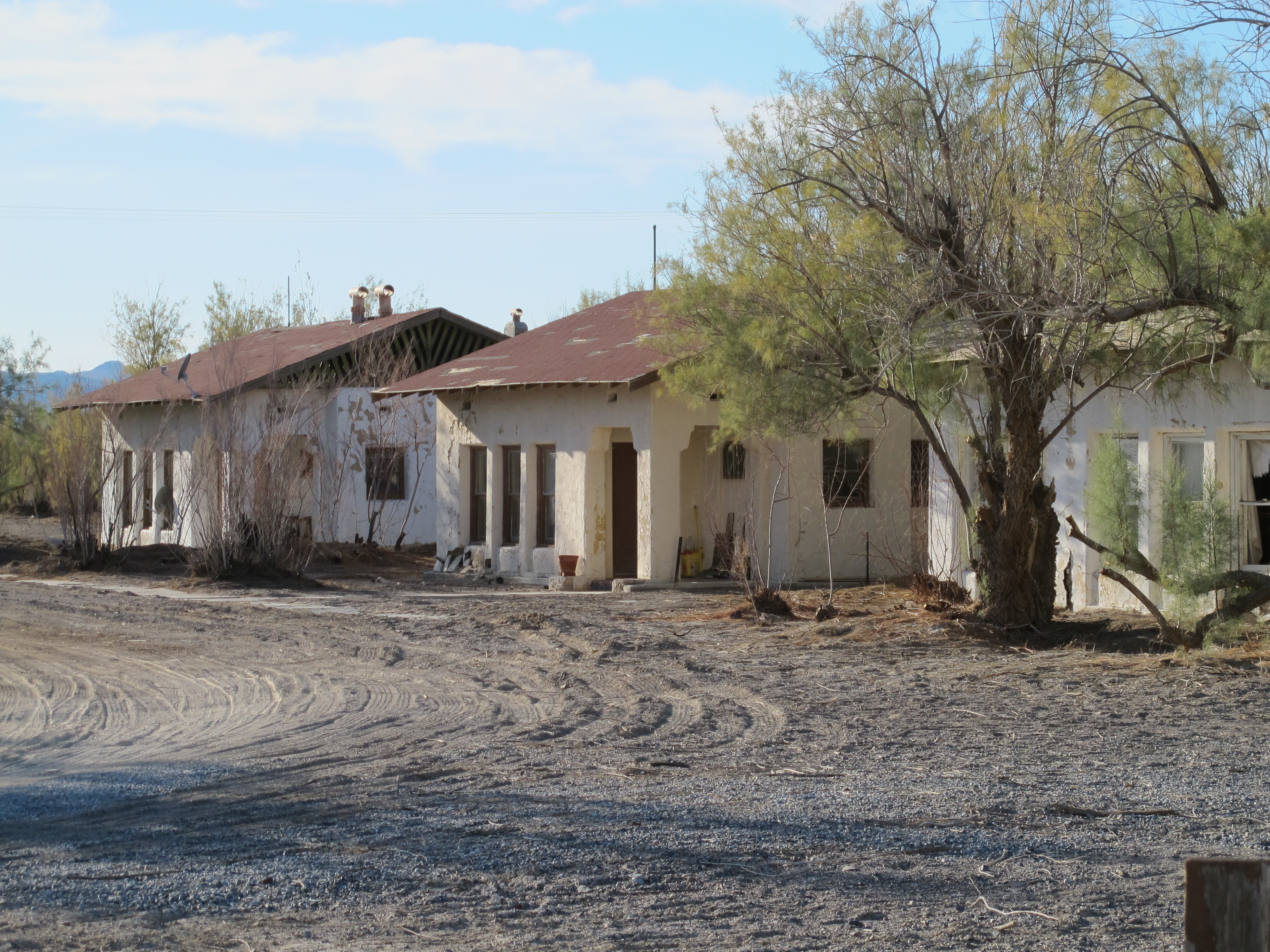 Former company town of the Pacific Coast Borax Company, Death Valley Junction, CA.